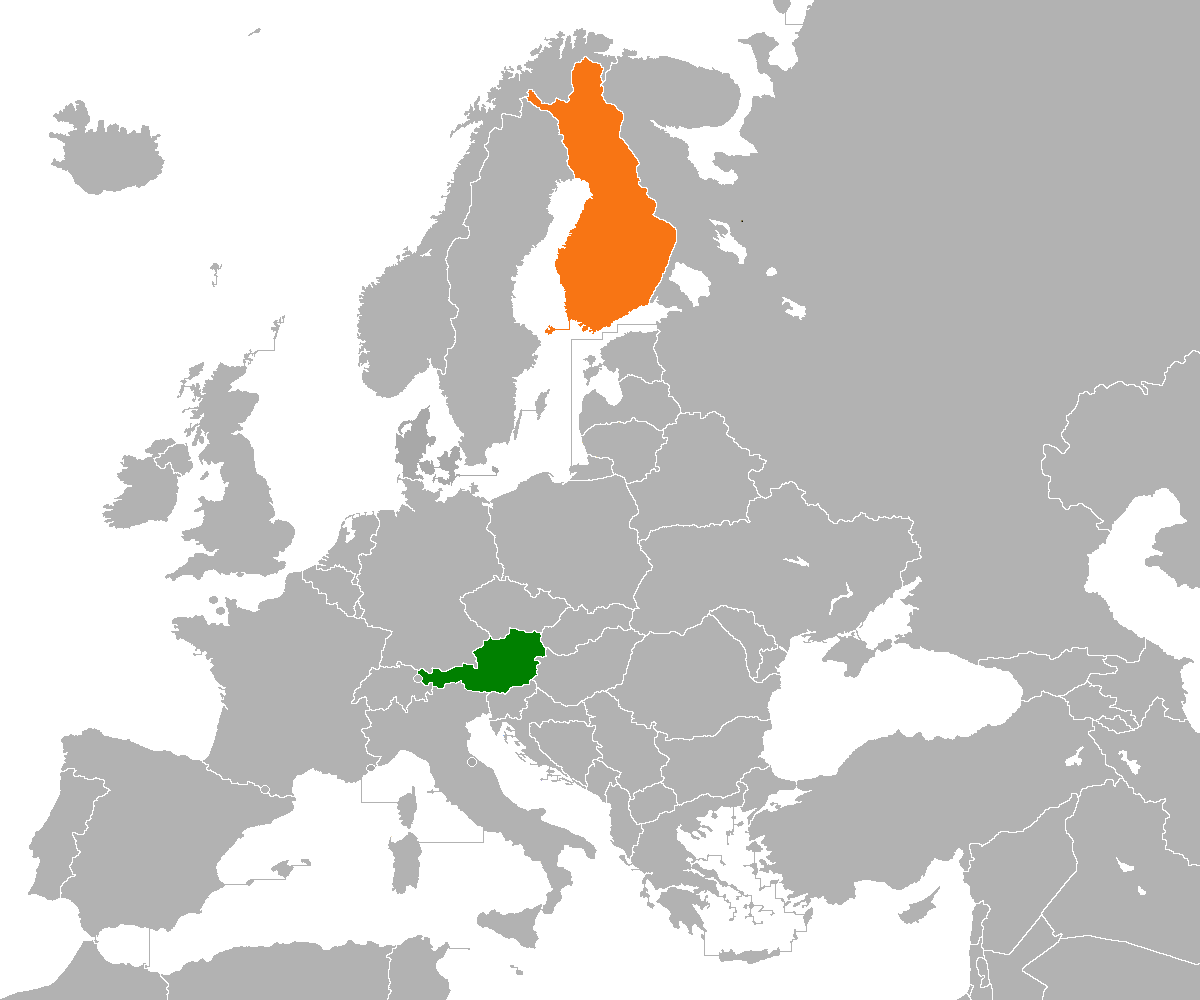 Austria-Finland locator map.